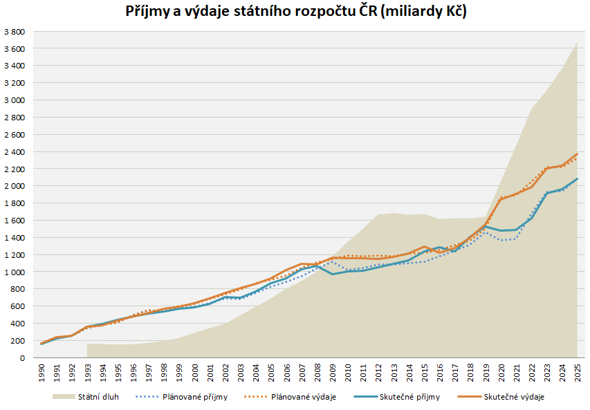 Graf příjmů a výdajů ČR